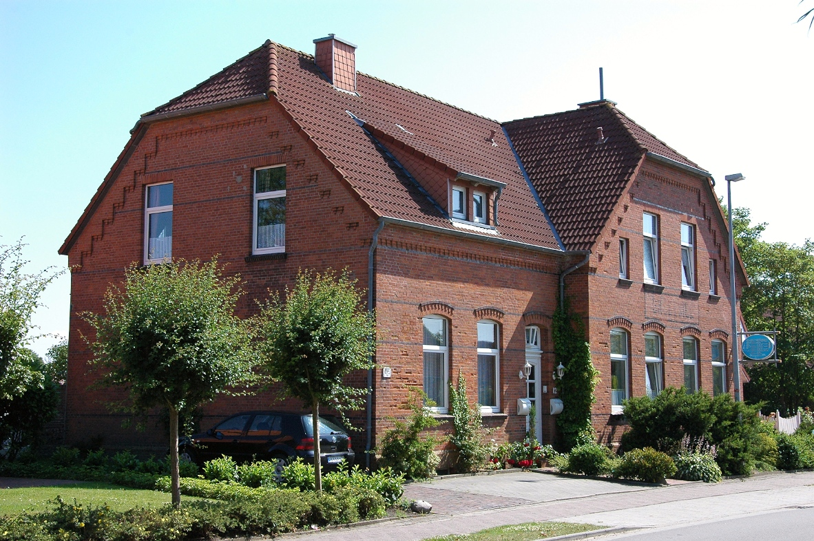 Formerly station building of the closed Greetsiel station (narrow gauge) (2009)